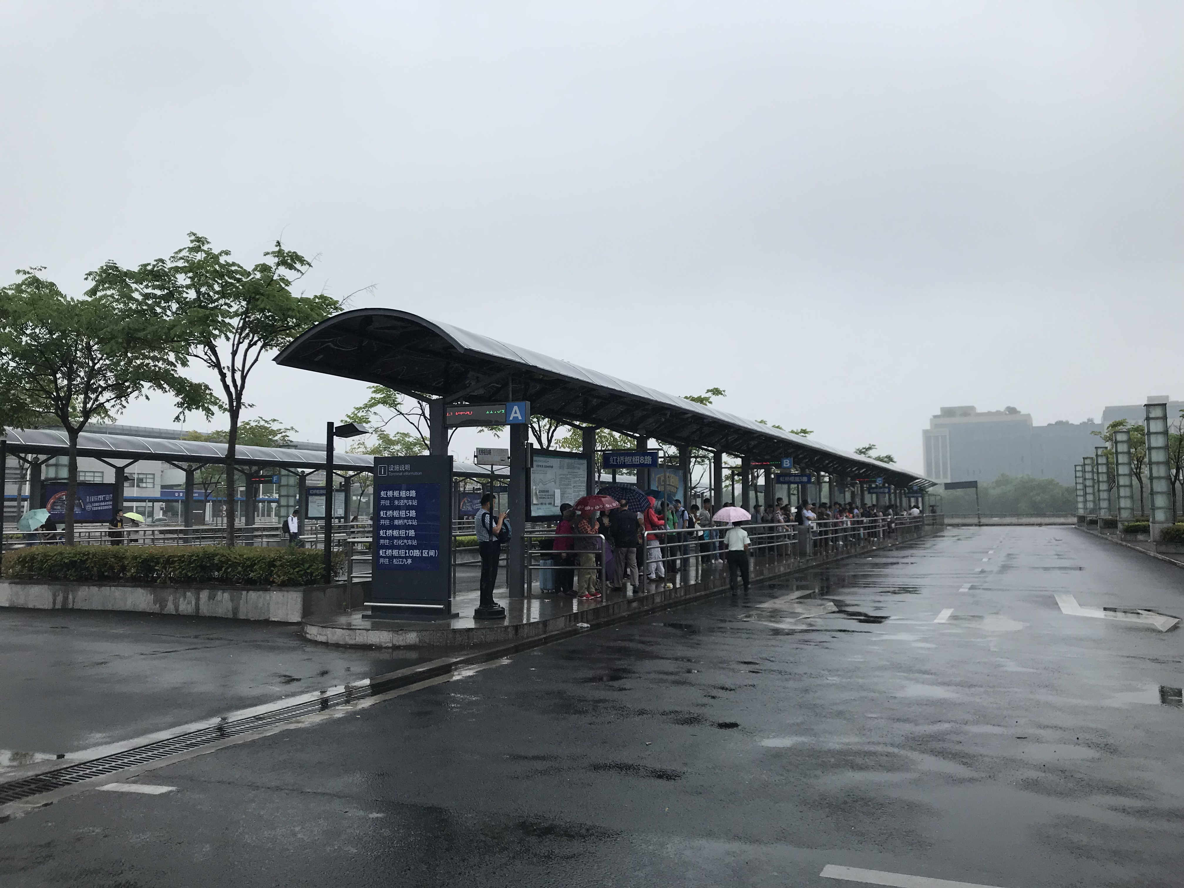 201805 Shanghai Hongqiao West Bus Stop